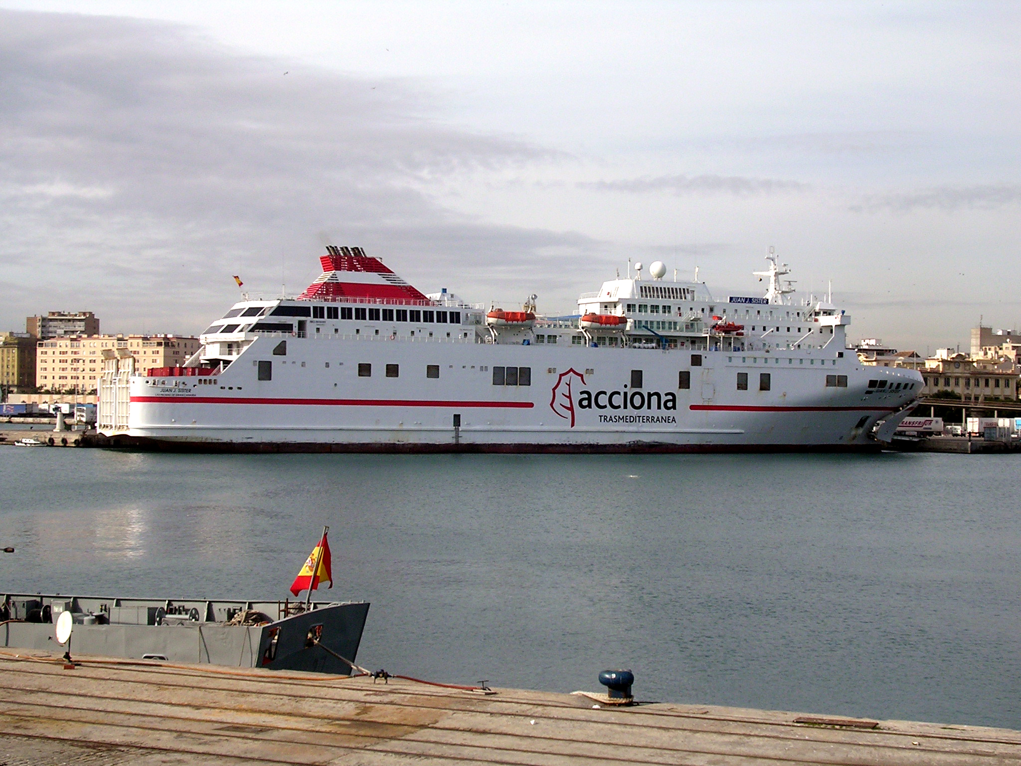 Juan J. Sister - IMO 9039391: ferry built 1993. 22,940grt. Taken at Malaga